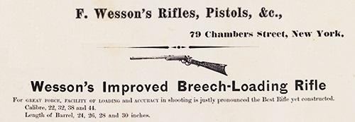 Frank Wesson's Rifle Advertisement